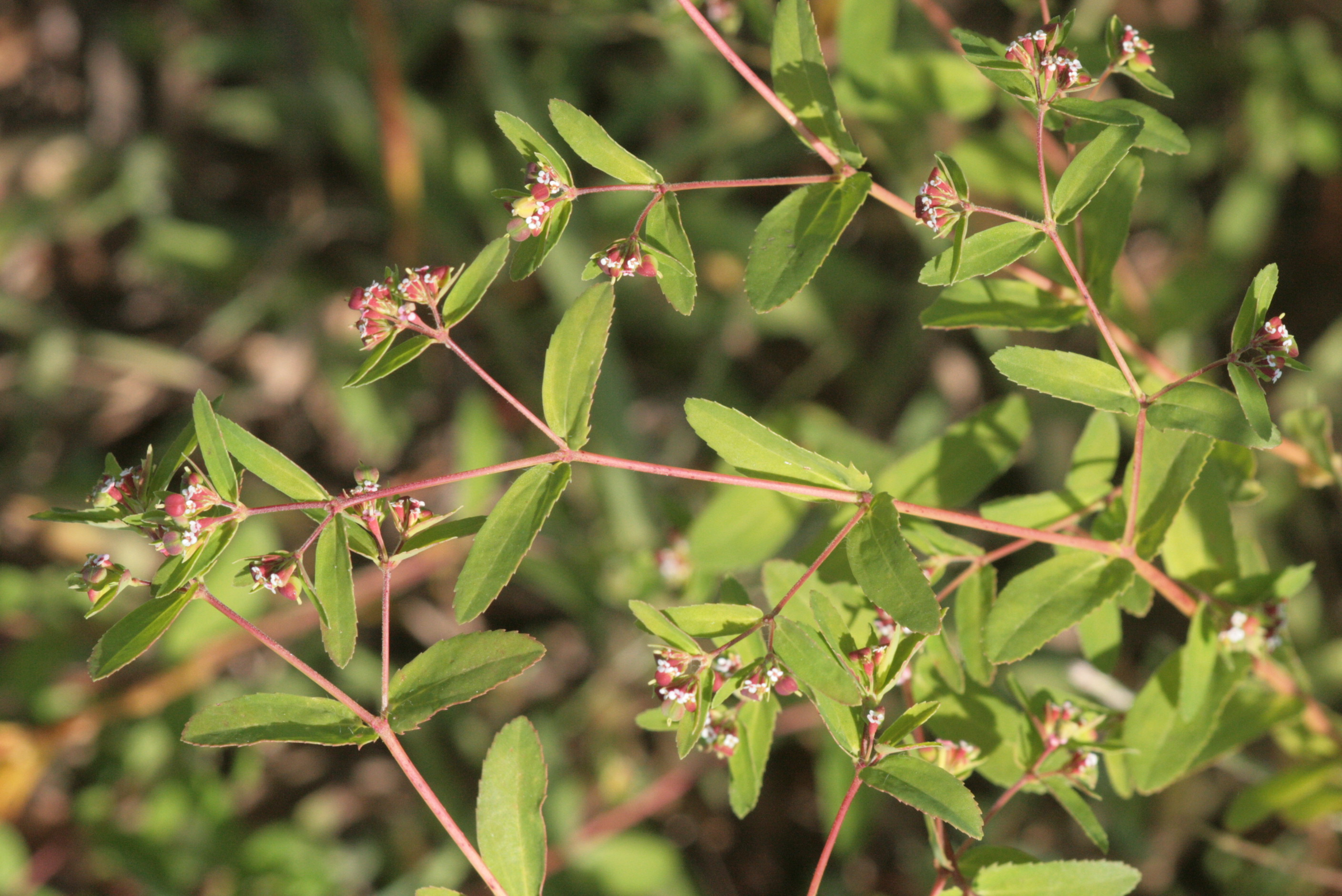 Euphorbia nutans